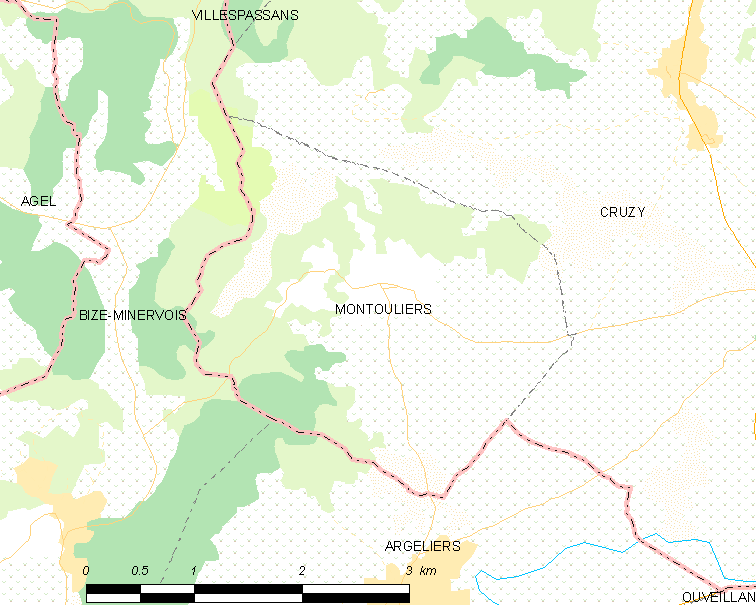 Map commune FR insee code 34170.png - Montouliers